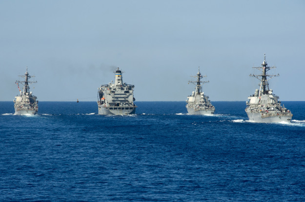 Arleigh Burke-class guided-missile destroyers USS Ramage (DDG-61), USS Barry (DDG-52) and USS Stout (DDG-55) conduct a replenishment-at-sea with the Military Sealift Command oiler USNS Leroy Grumman (T-AO-195) on Sept. 27. US Navy Photo